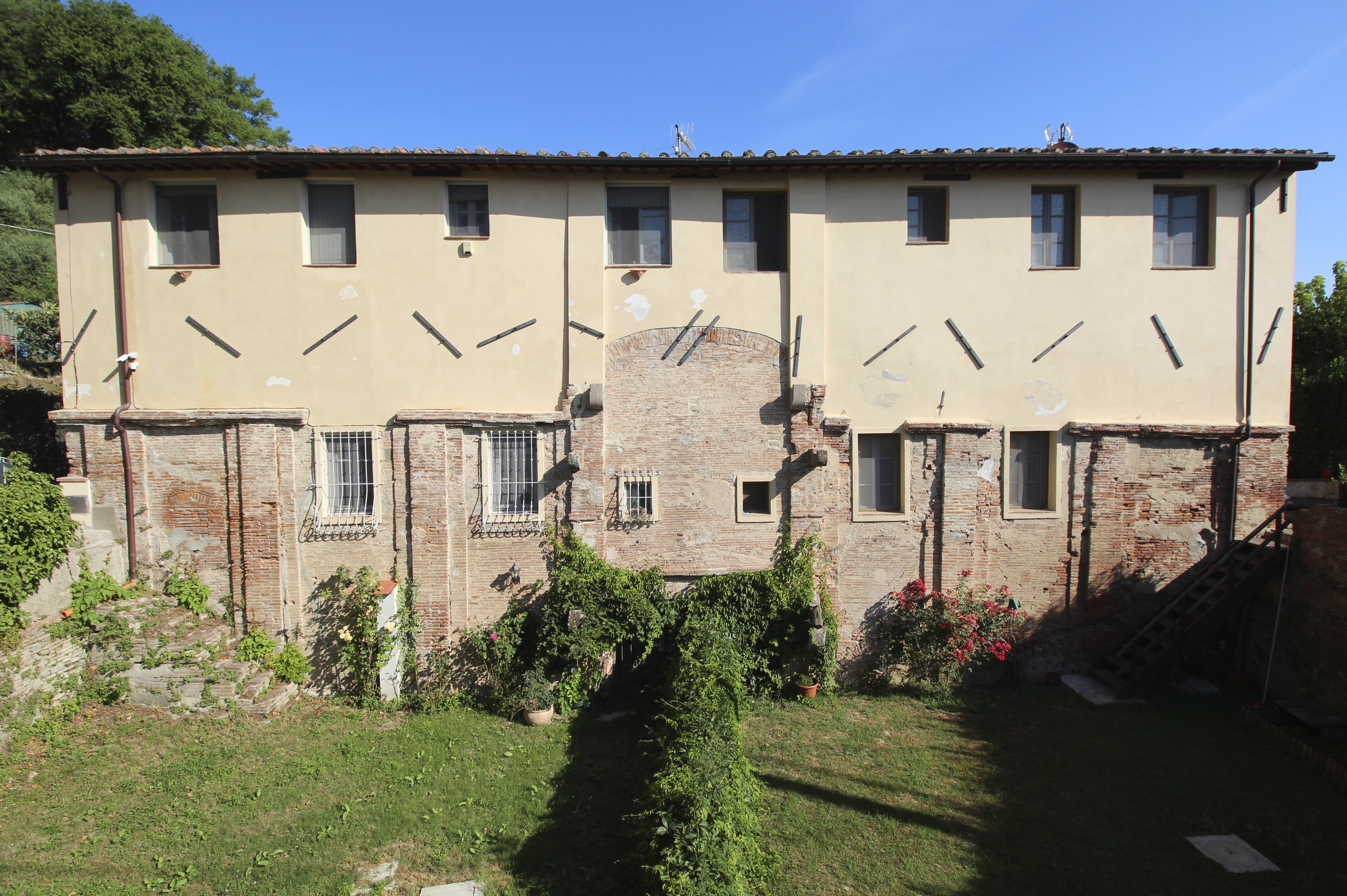 Cateratte di Riparotti, San Giovanni alla Vena, hamlet of Vicopisano, Province of Pisa, Tuscany, Italy